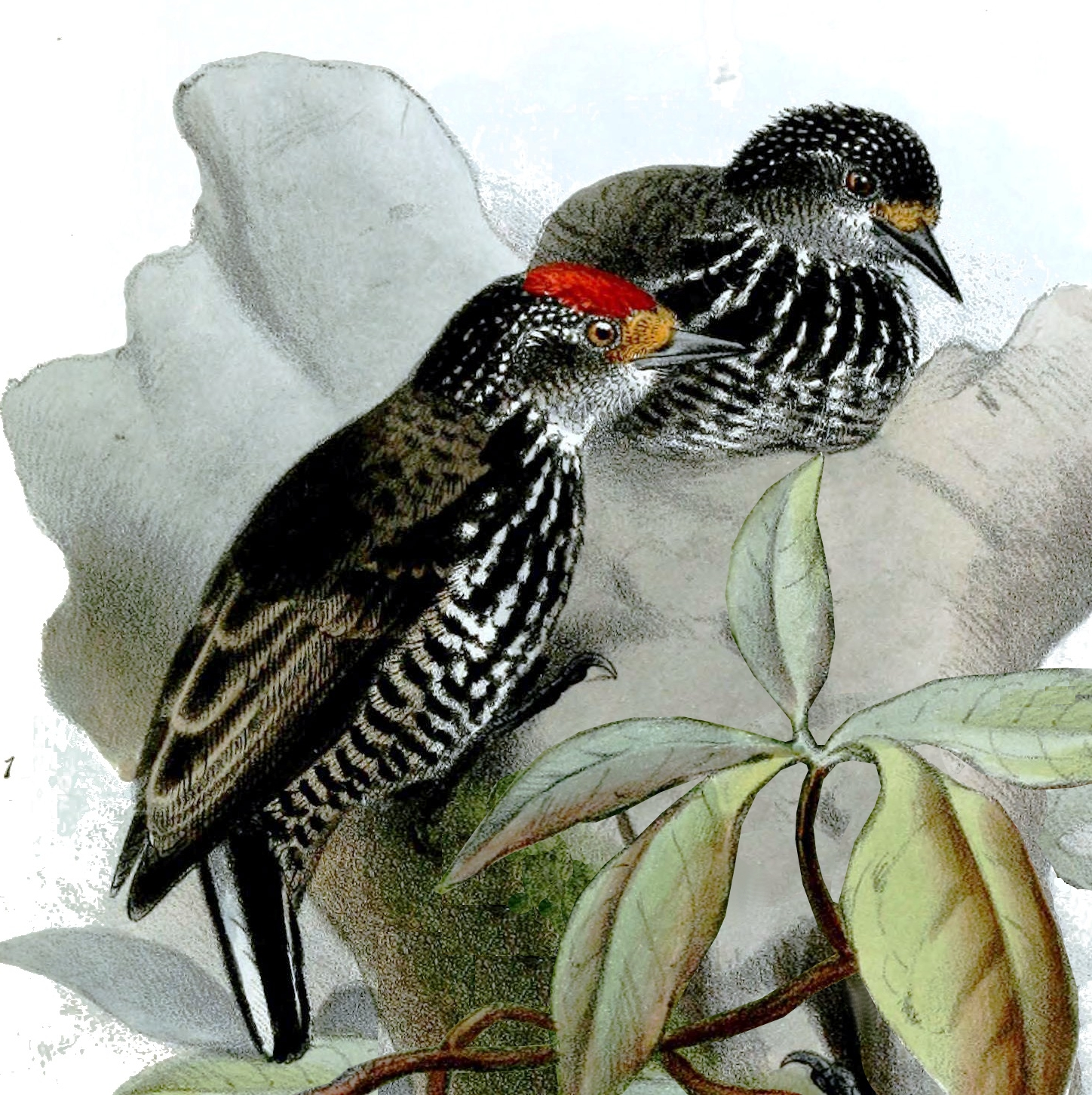 Speckle-chested Piculet, female (top); Speckle-chested Piculet, male (bottom)